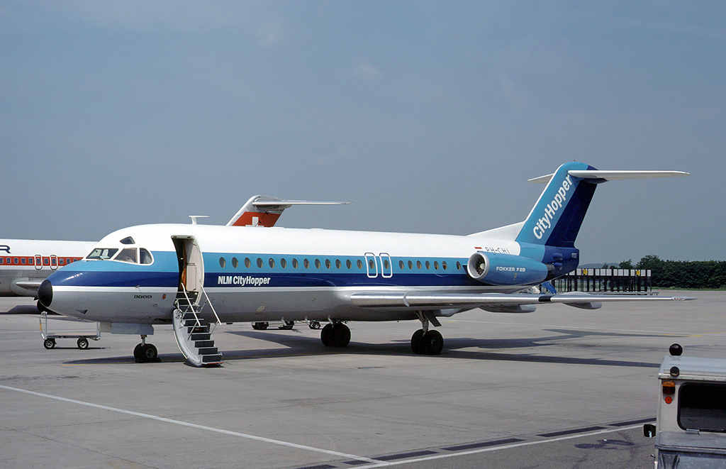 An NLM CityHopper Fokker F-28-4000 at Euroairport (LFSB). This aircraft crashed on 6 October 1981 near Moerdijk.